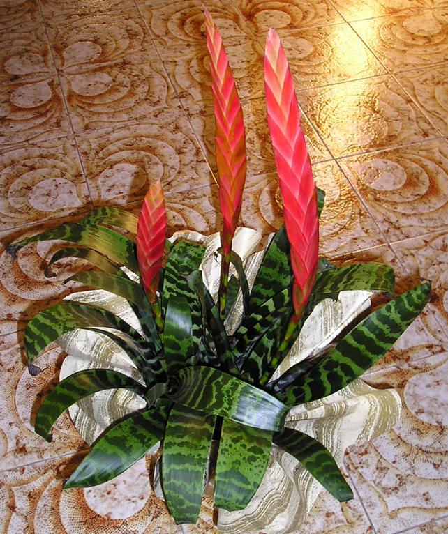 Species Vriesea splendens Familia Bromeliaceae It is a Cultivar of Vriesea splendens --BotBln 15:25, 7 July 2006 (UTC).